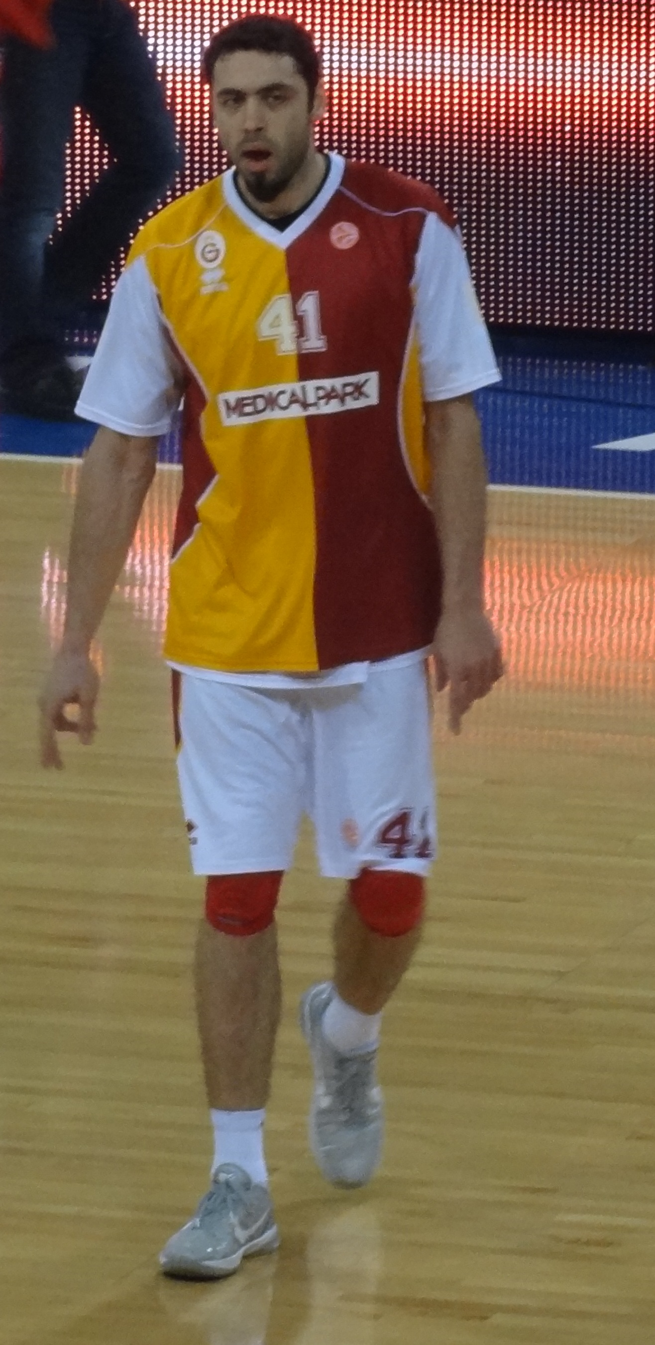 Cevher Efes maçında